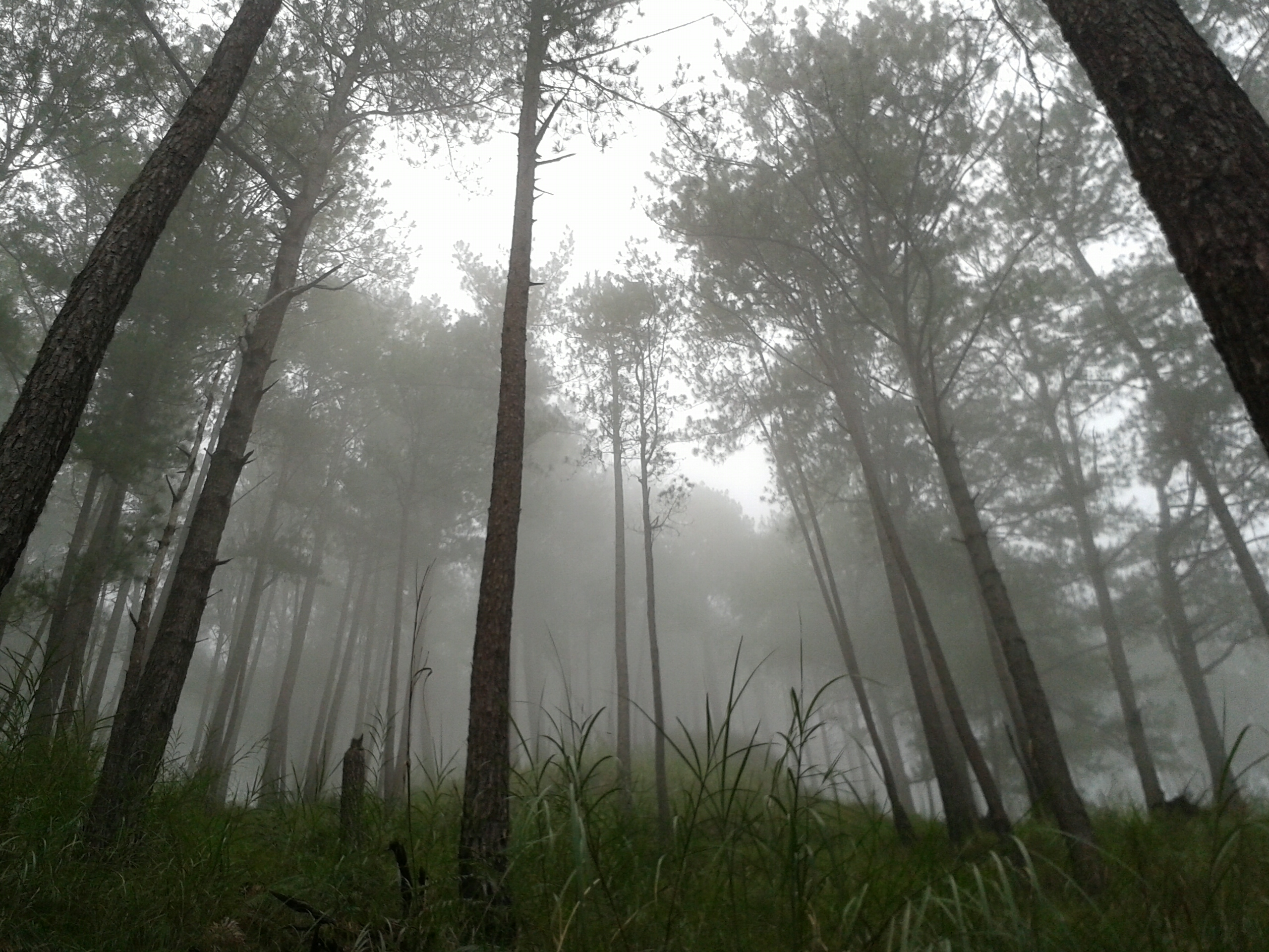 taken during my hike in forest of Benguet